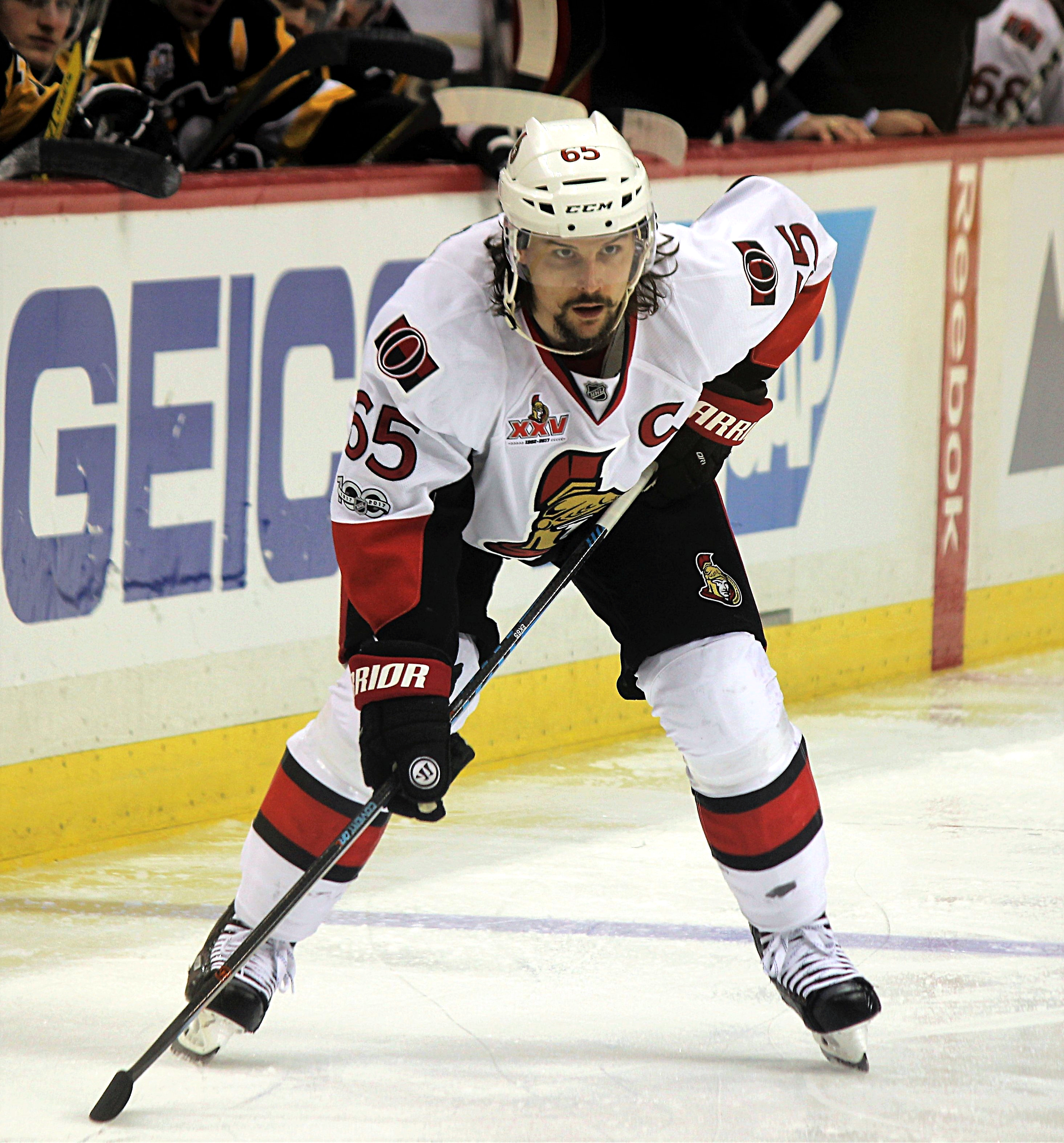 Ottawa Senators captain Erik Karlsson during a playoff game against the Pittsburgh Penguins, May 13, 2017, at PPG Paints Arena in Pittsburgh, PA.